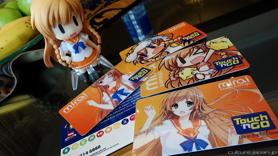 Mirai Suenaga Touch 'n Go will be on sale at Comic Fiesta 2012!